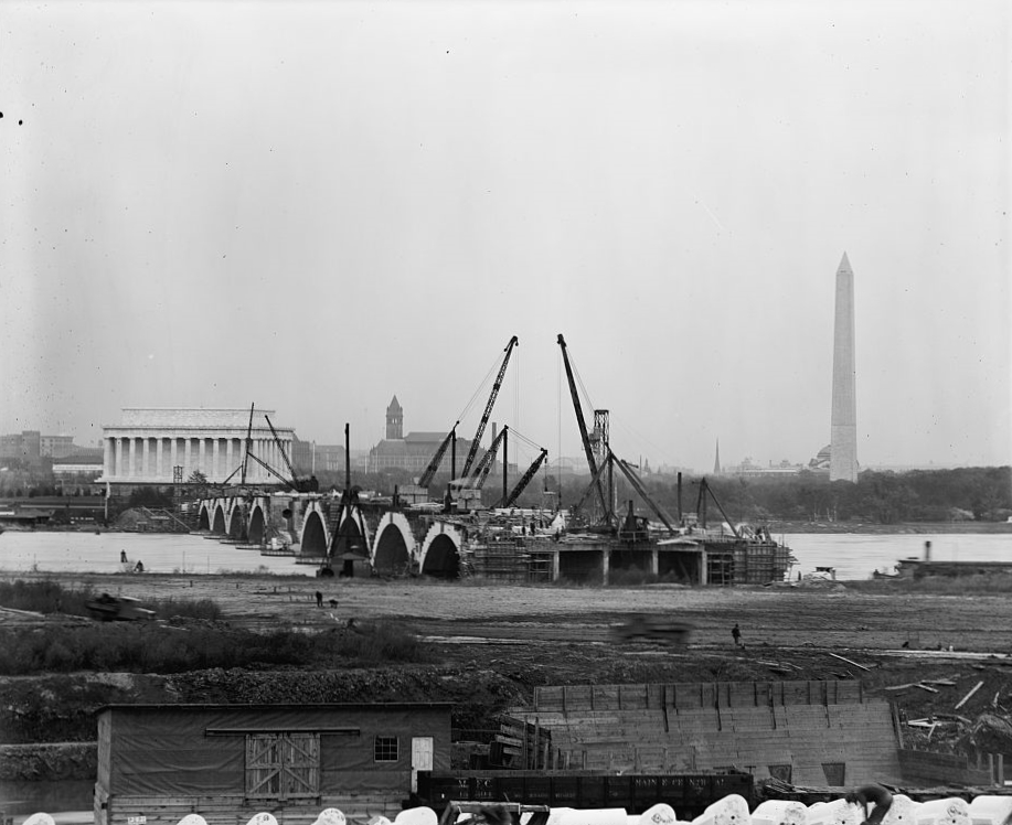 LINCOLN MEMORIAL BRIDGE. UNDER CONSTRUCTION